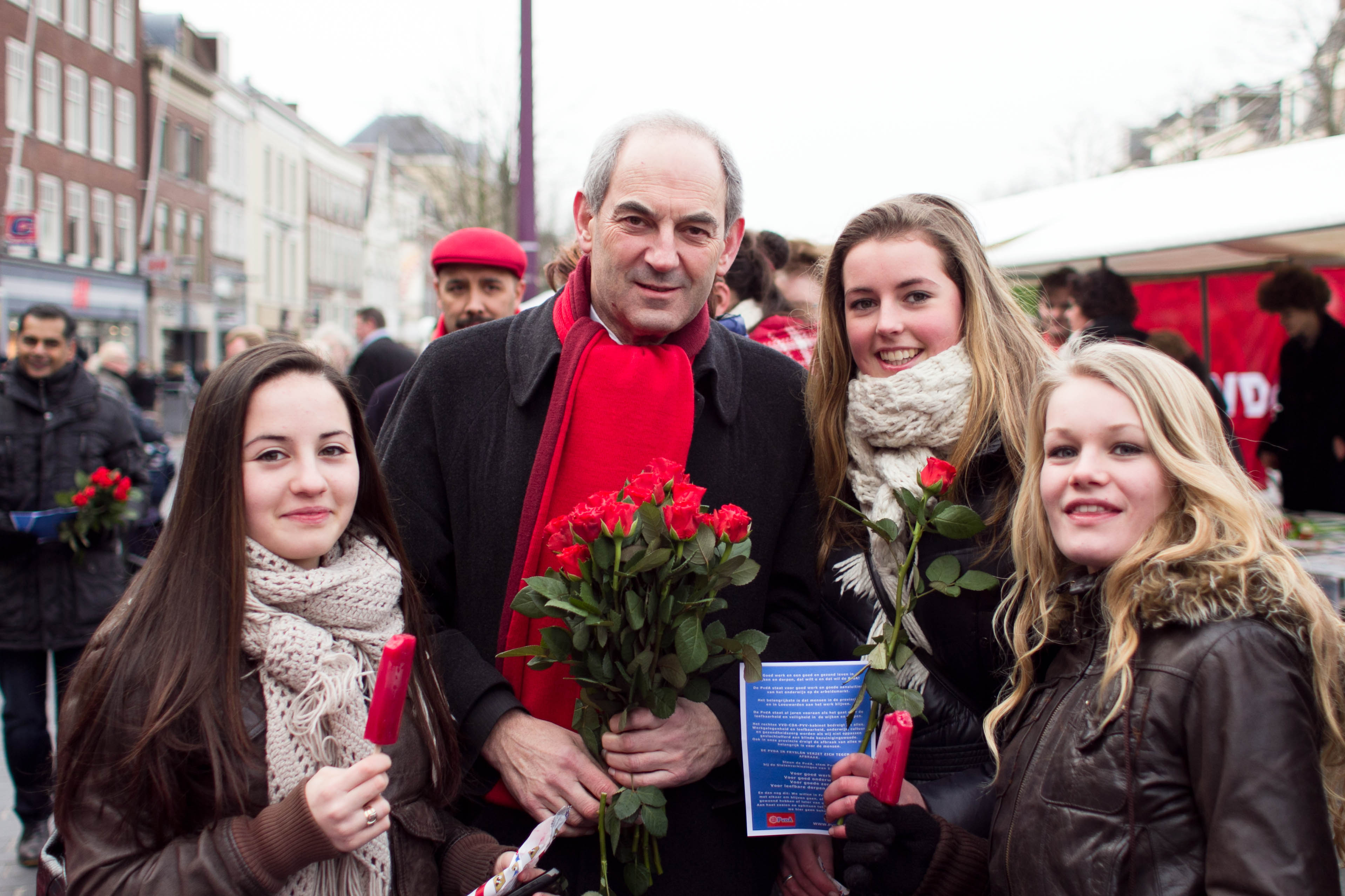 Job Cohen is handing out red roses during the 2011 campaign for the States-Provincial elections.